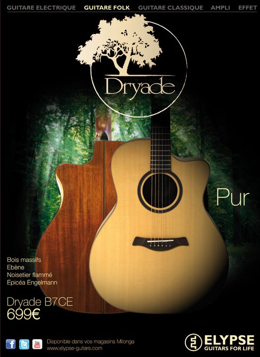 La guitare électro-acoustique Elypse Dryade B7CENT